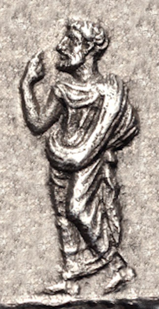 Datames with Chlamys